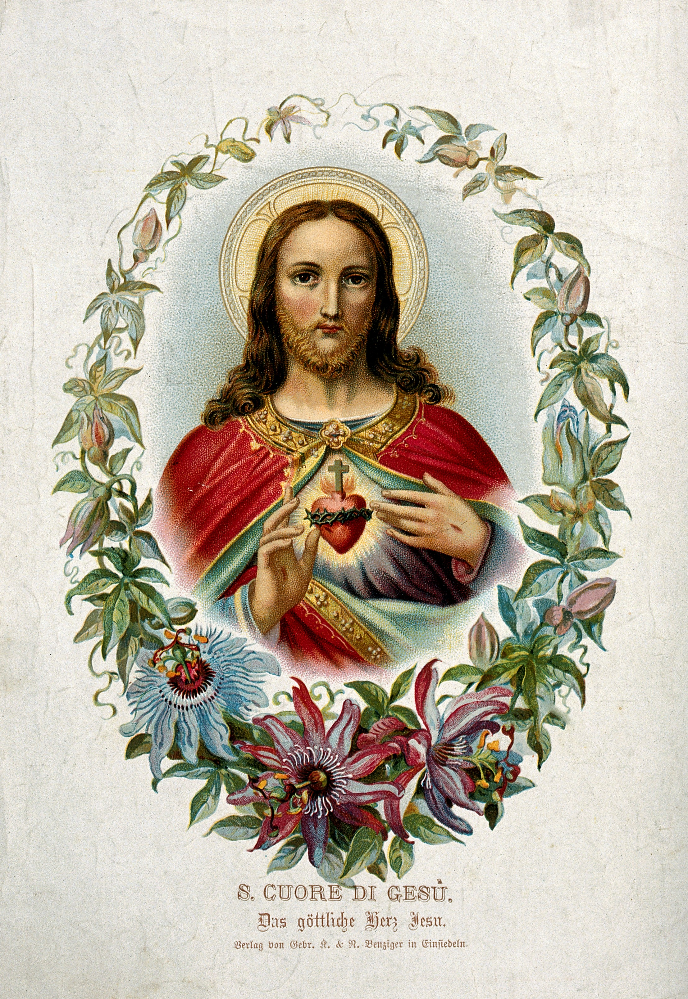 Christ showing his Sacred Heart. Colour lithograph. Iconographic Collections